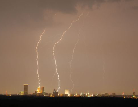 Lightning strikes over downtown Tulsa, Oklahoma.